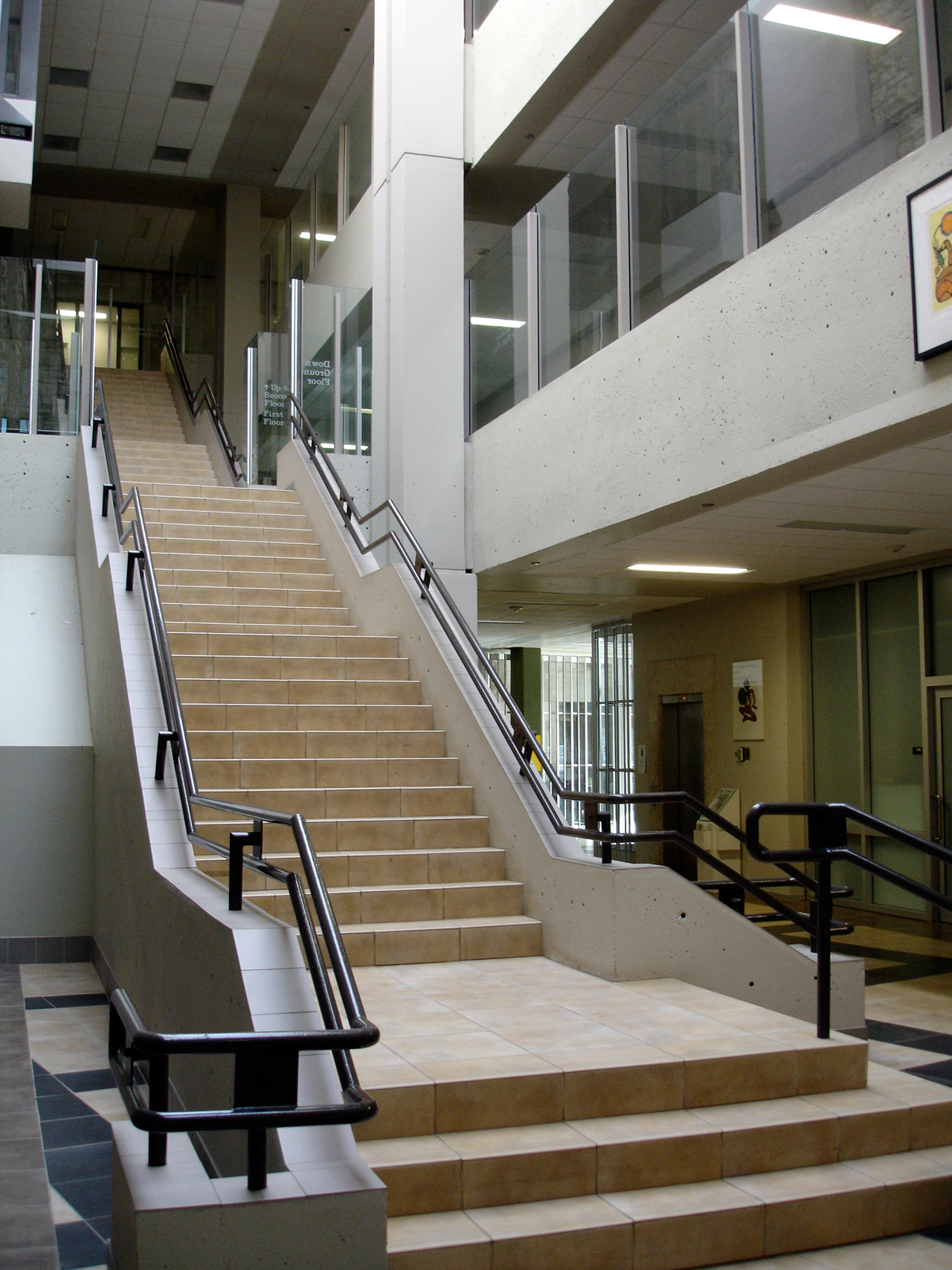 The Admin Building is three storeys high and houses a number of the university's administrative units.